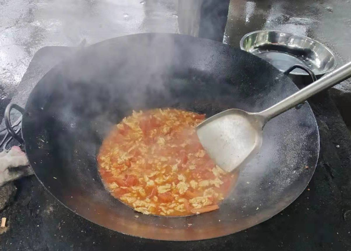 Cooking tomato and eggs with a wok on an outdoor stove in Shenzhen, China.